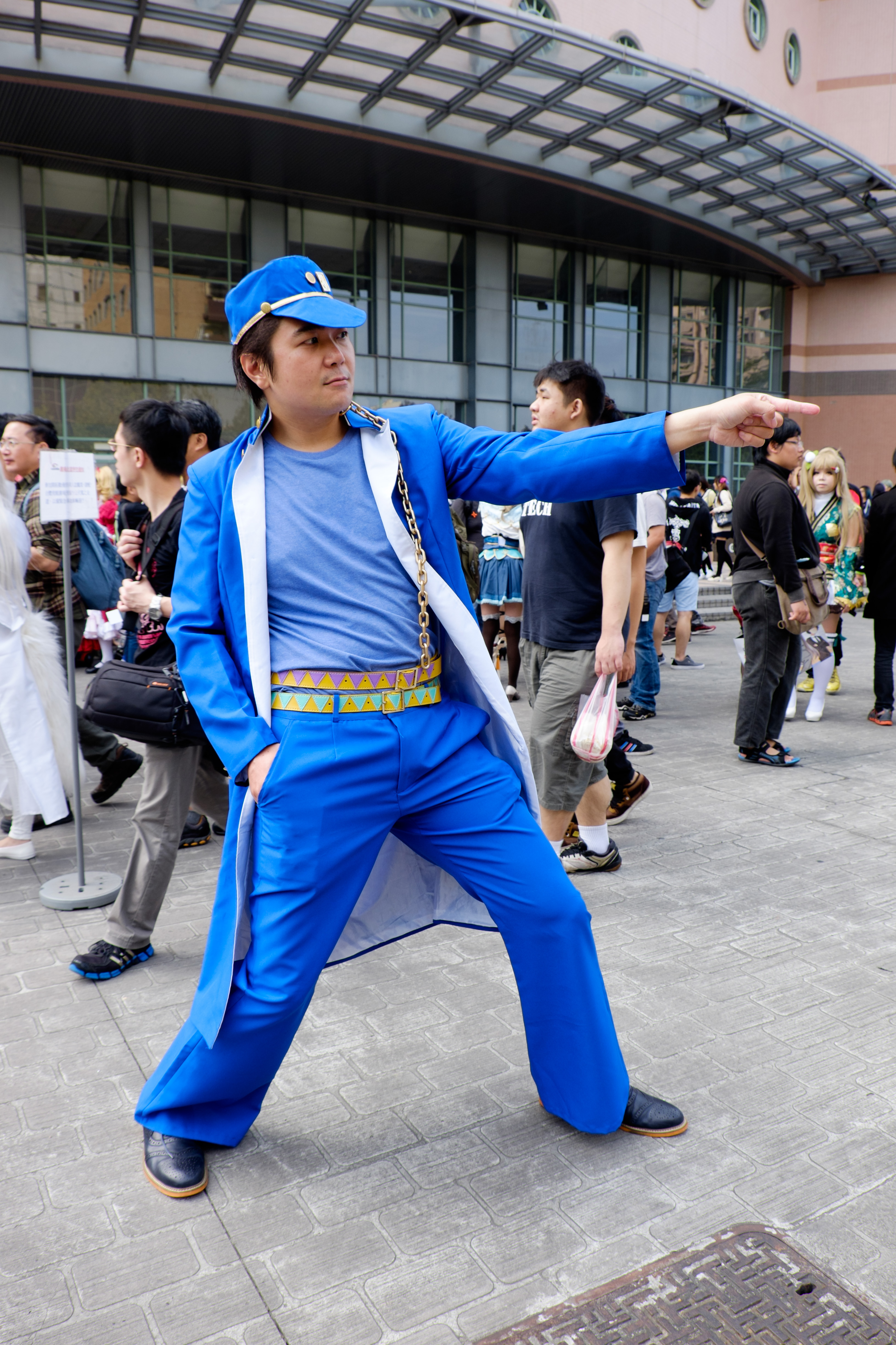 中文（台灣）: Petit Fancy 23第二日下午，＜ジョジョの奇妙な冒険＞第三部空條承太郎cosplayer。